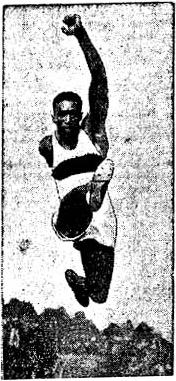 Mikio Oda (1905-1998)